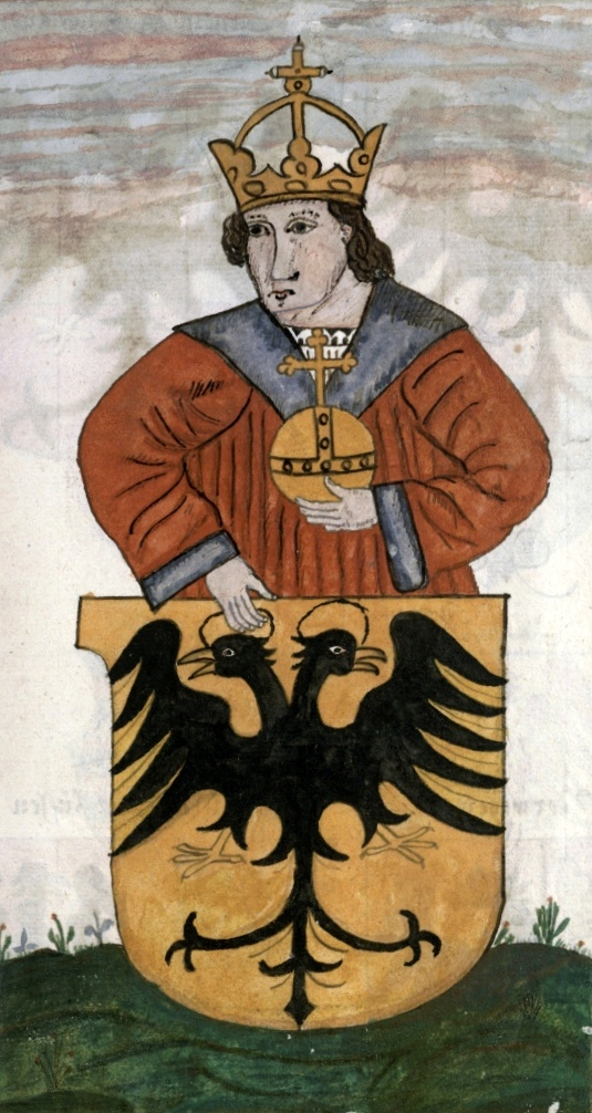 Braunschweig, Hermann Bote, Schichtbuch from 1514: illustration depicting Holy Roman Emperor Otto IV.